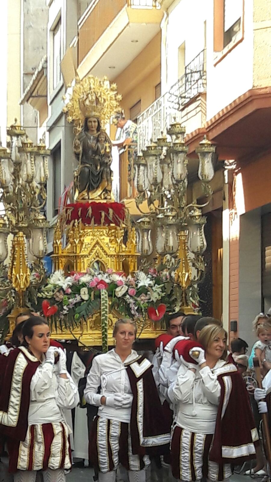 Mare de Déu de la Salut. La Mare de Déu de la Salut Festival is celebrated in September 8, in Alegemesi, Spain and commemorates the legendary discovery in 1247 of a statue depicting the Madonna and Child.